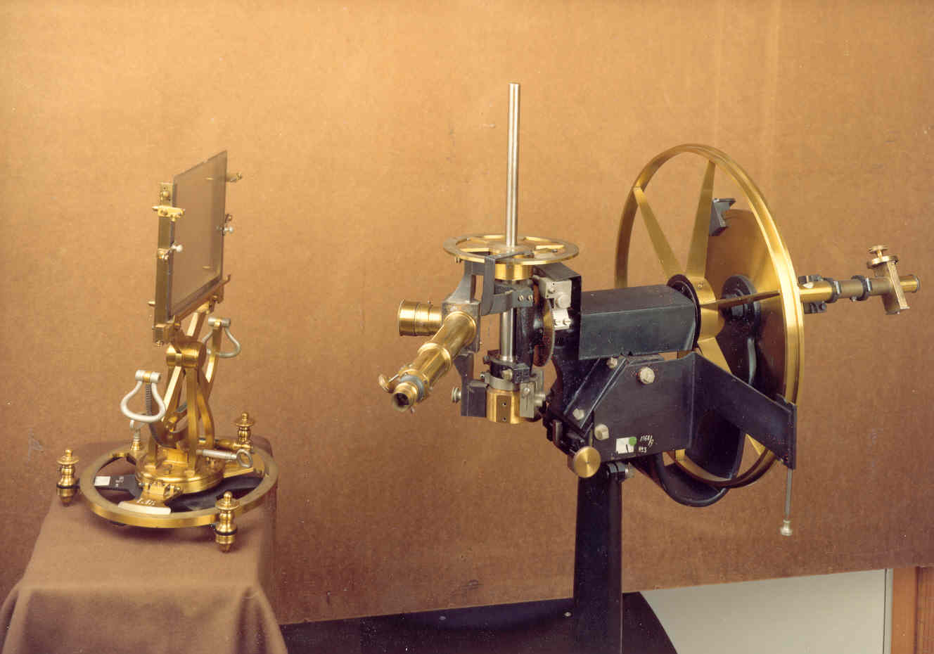 A photo of the parallactic instrument and glass plate holder built and used by Dutch astronomer Jacobus Kapteyn, used to analyze glass plate photographs of stars seen from the Southern hemisphere (South Africa, photos made by David Gill). Constructed around 1886, used to gather data for the Cape Photographic Durchmusterung.